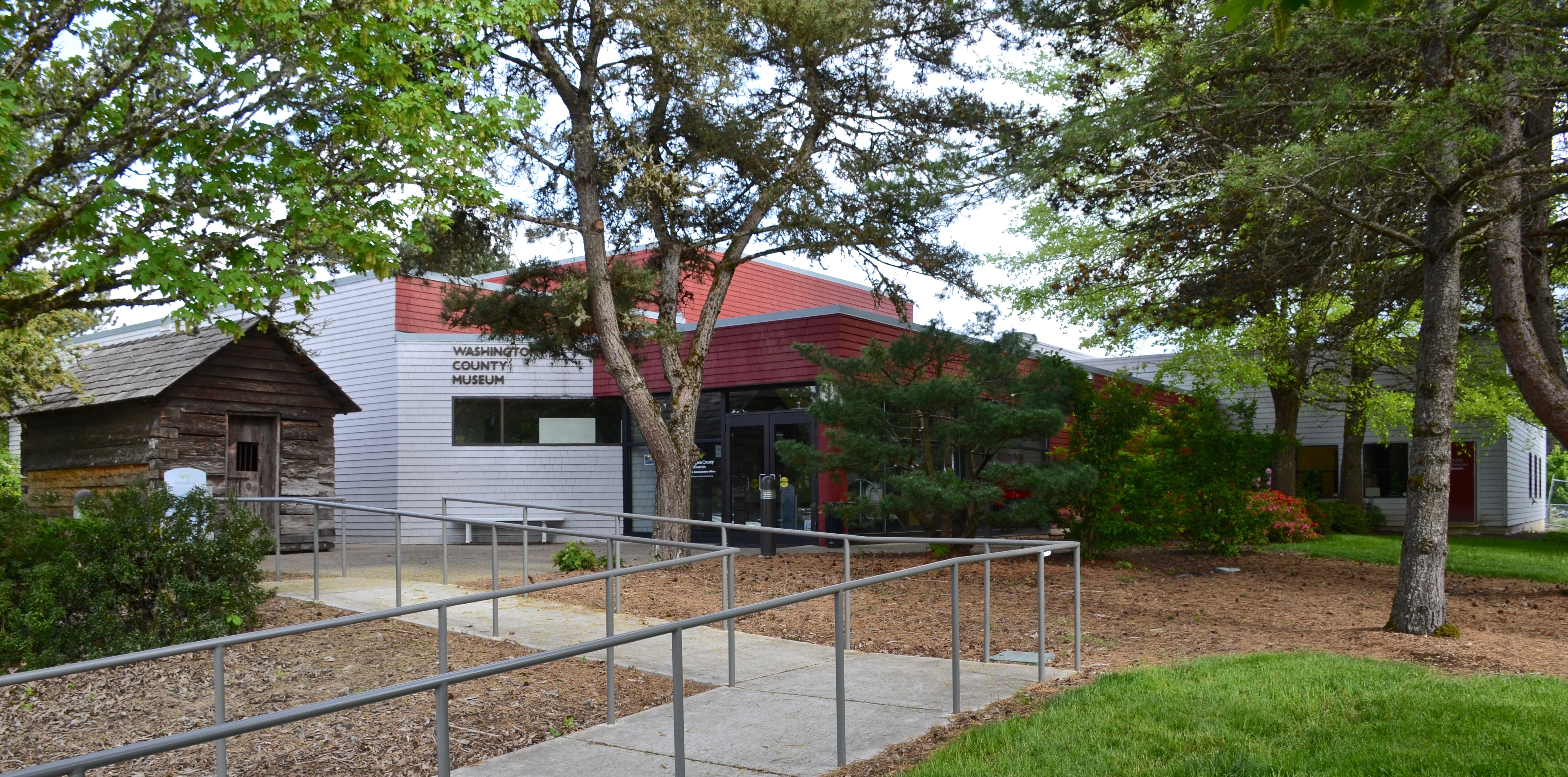 The Washington County Museum, on Portland Community College's Rock Creek Campus. At left is the historic former Washington County Jail, a log building that was in use as a jail from 1853 to 1870.